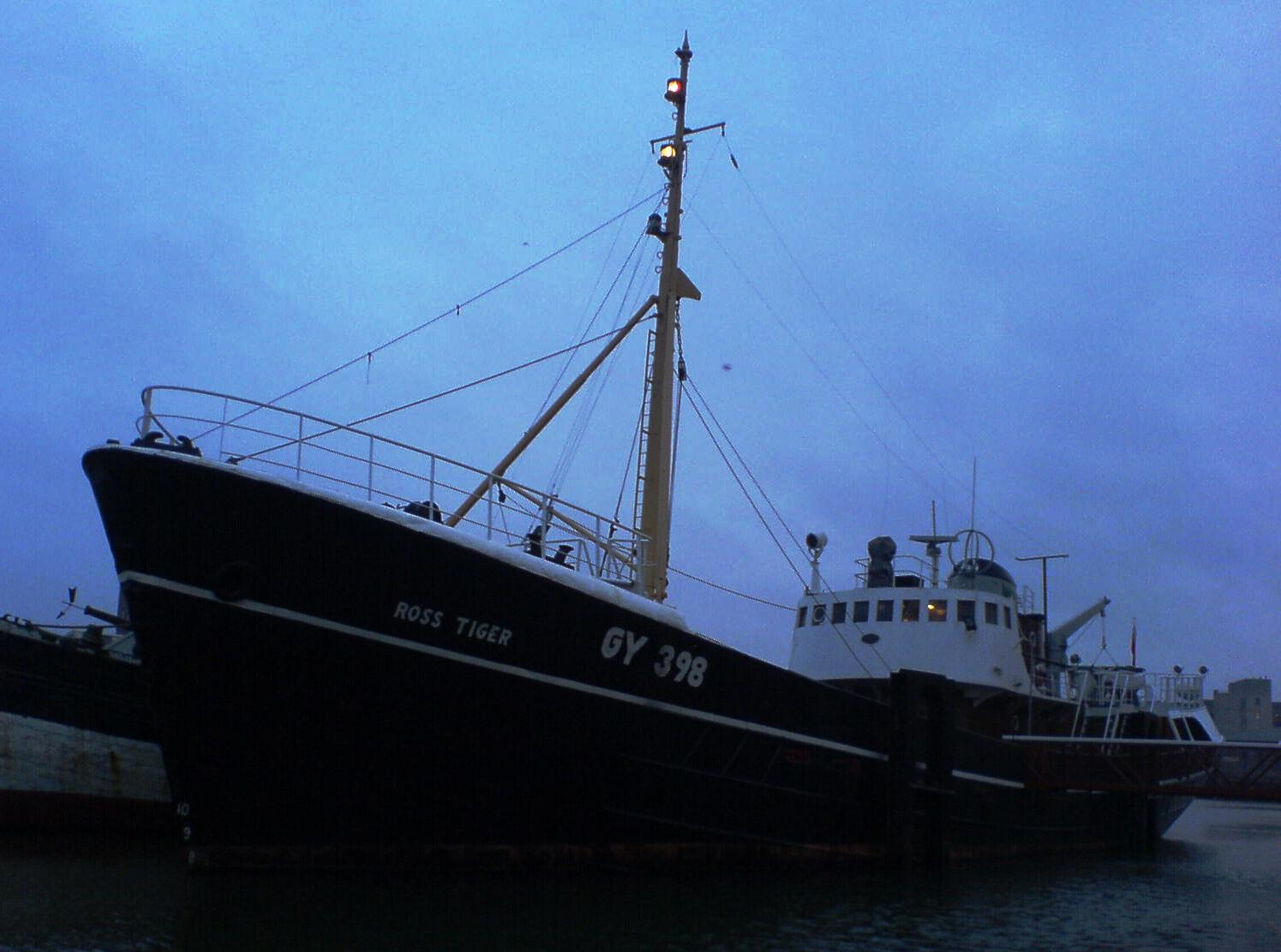 Ross Tiger, lit at dusk at her home in Alexandra Dock, Grimsby, England